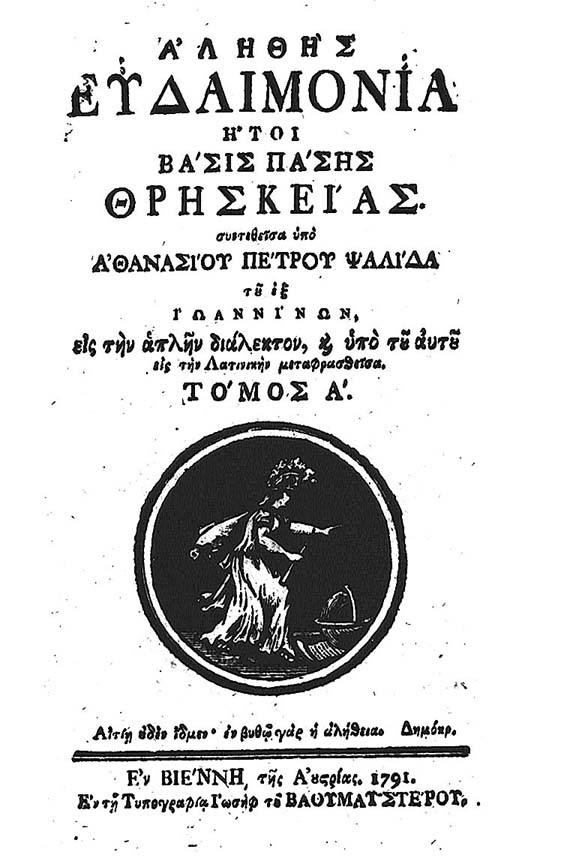 Cover of 'Alithis Eudaimonia' (Real Bliss) of Athanasios Psalidas, 1791